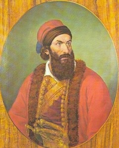 Papaflessas